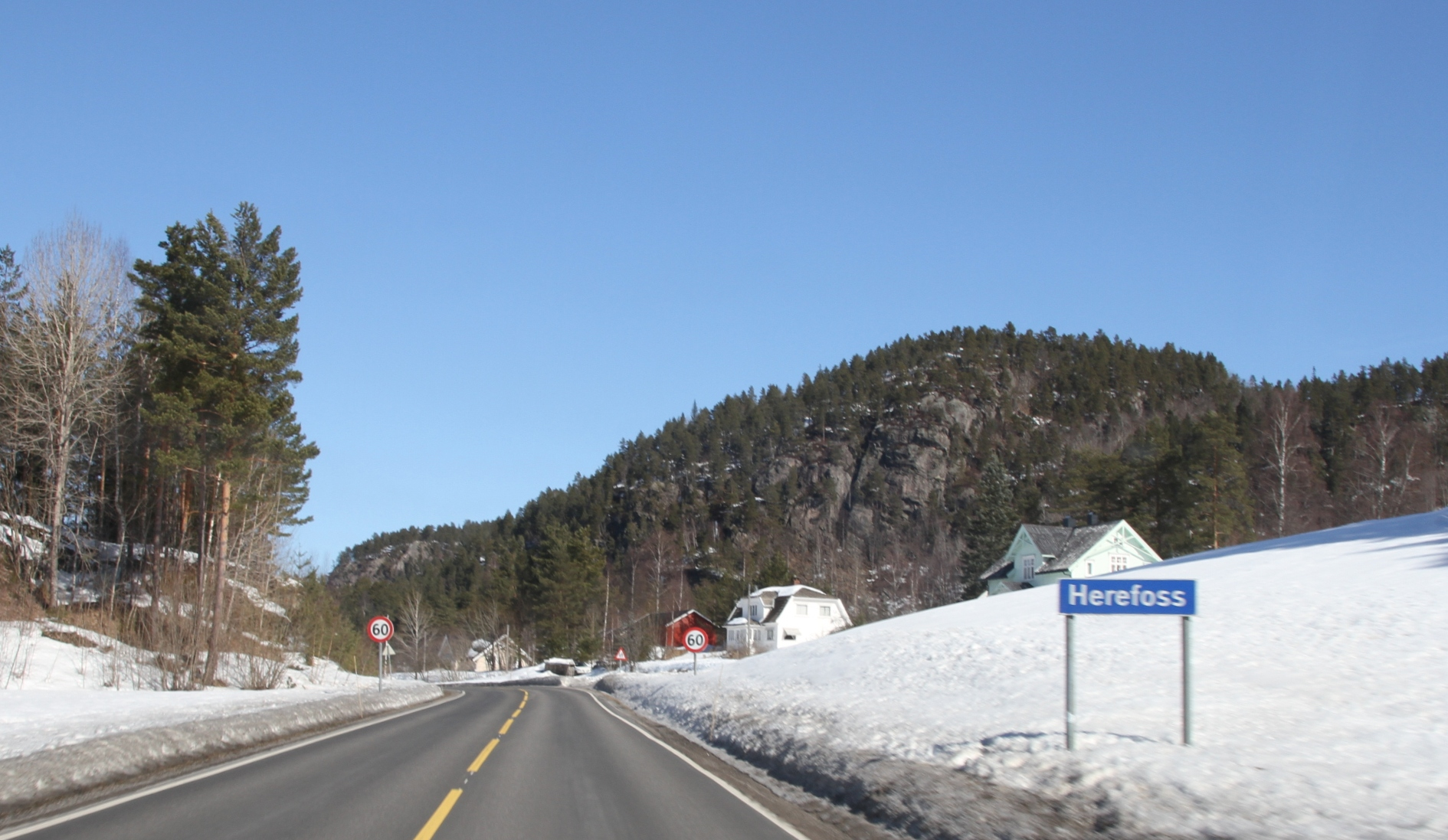 Image from the Herefoss area (formerly municipality), in northern Birkenes municipality and along the Herefossfjorden lake on the Tovdalselva river, Aust-Agder county (Norway).